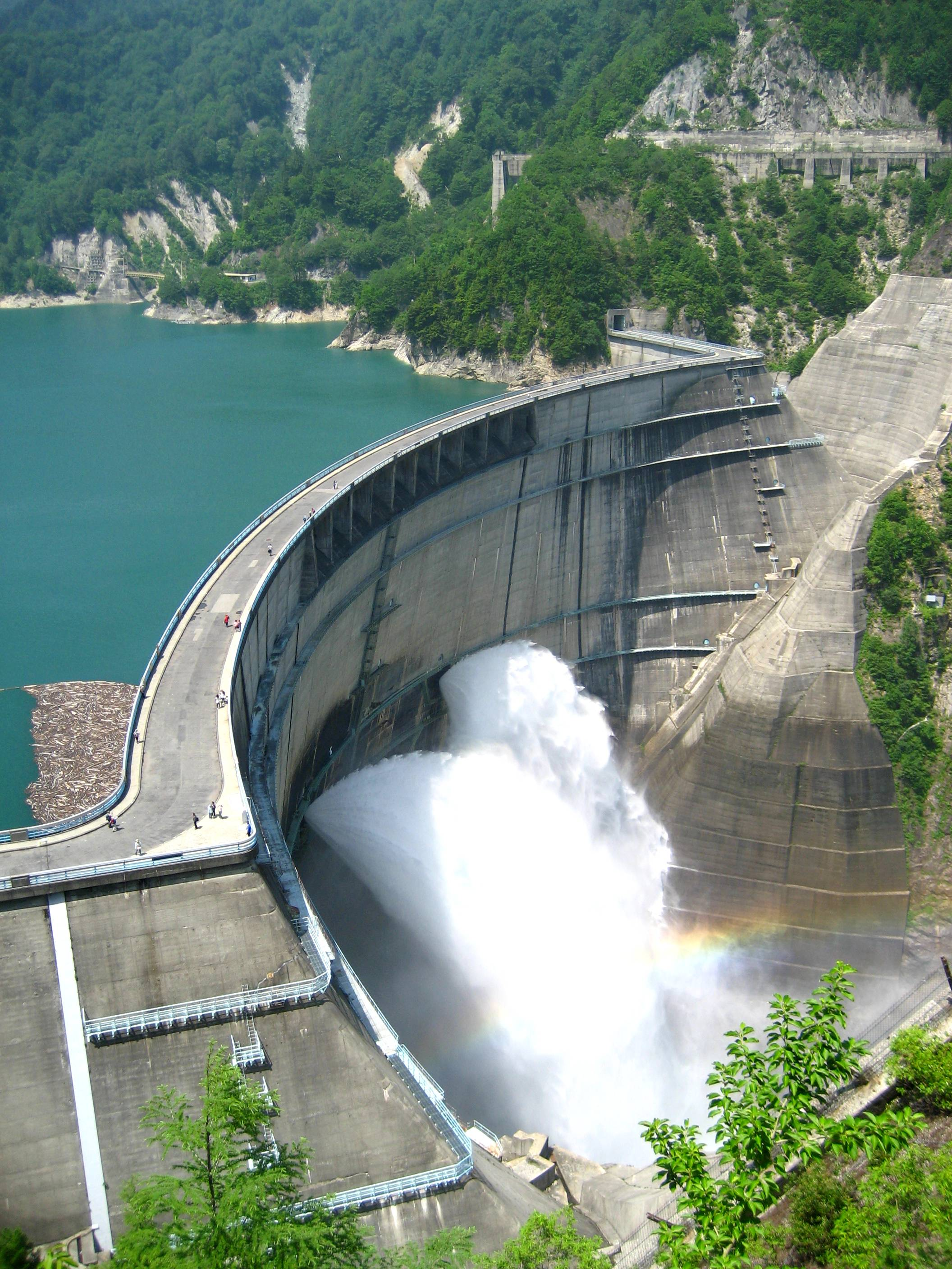 Kurobe Dam (黒部ダム) in Tateyama Town, Toyama prefecture, Japan.